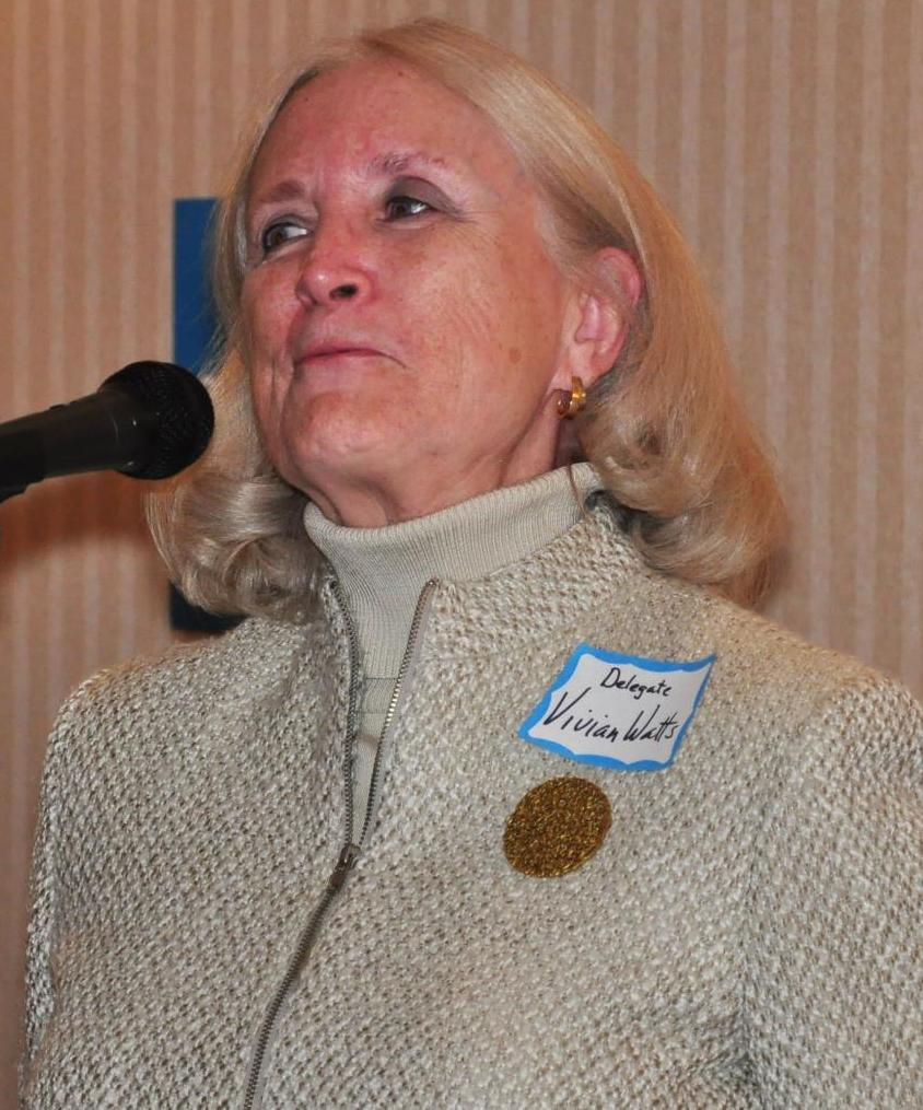 Kingstowne Thompson Center, November 30, 2012